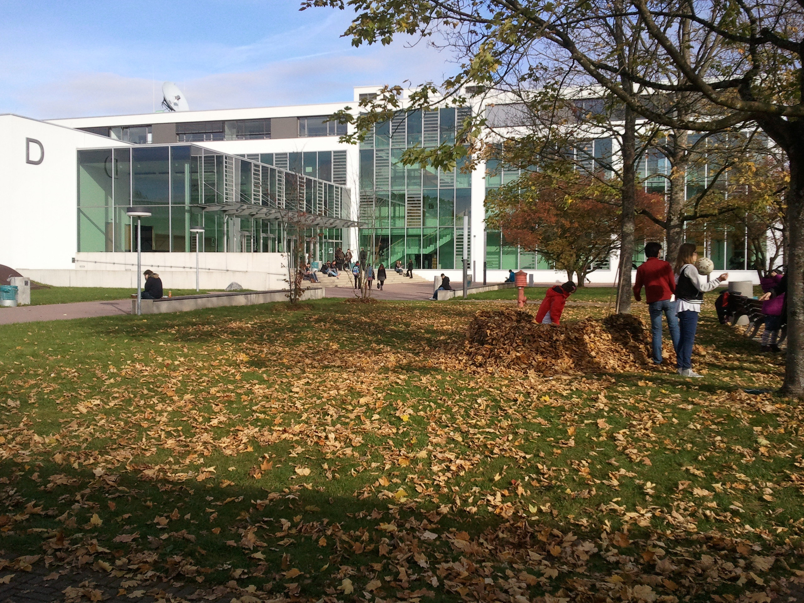 D building of Hochschule Offenburg